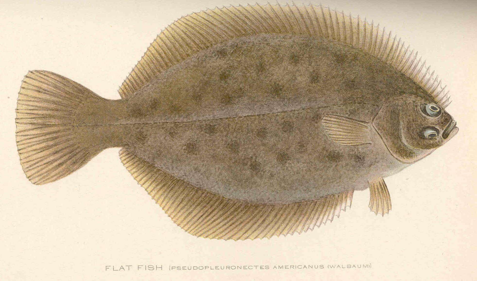 Flat Fish (Pseudopleuronectes americanus (Walbaum)) Subject: Winter flounder, Flatfishes Tag: Fish